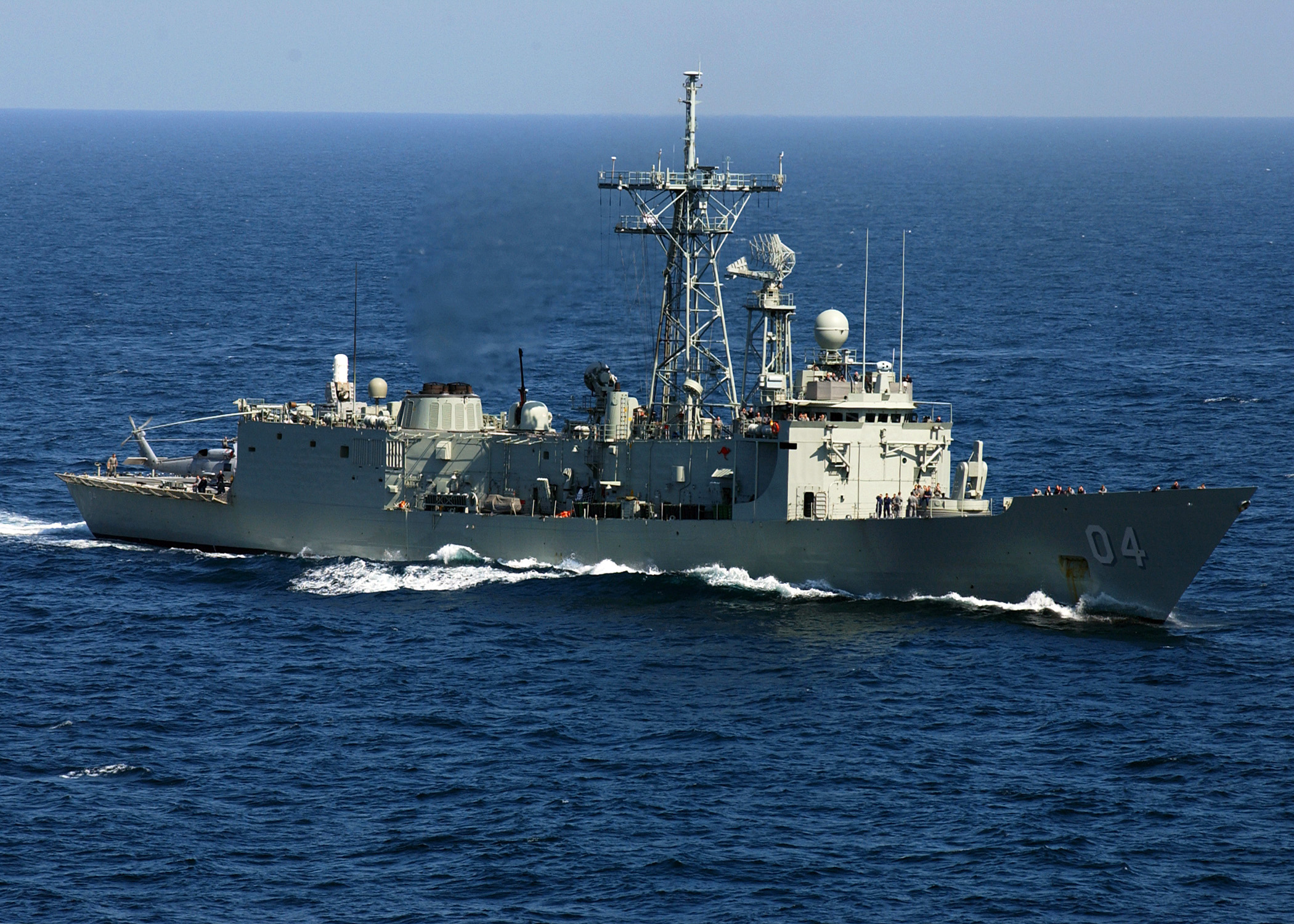 Persian Gulf (Mar. 15, 2005) — The Royal Australian Navy frigate HMAS Darwin (FFG 04) underway in the waters of the Persian Gulf alongside the Nimitz-class aircraft carrier USS Harry S. Truman (CVN 75). Darwin is a long-range escort with roles including area air defense, anti-submarine warfare, surveillance, reconnaissance and interdiction. She can counter simultaneous threats from the air, surface and sub-surface. The Truman Carrier Strike Group is on a regularly scheduled deployment in support of the Global War on Terrorism.